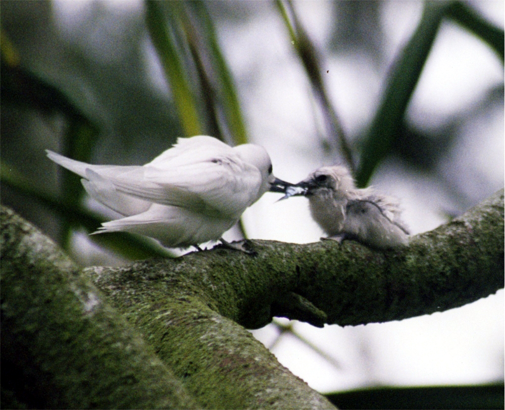 Fairy Tern feeding a chick at Midway Atoll The image is a scan of an old print. Photograped by Brocken Inaglory